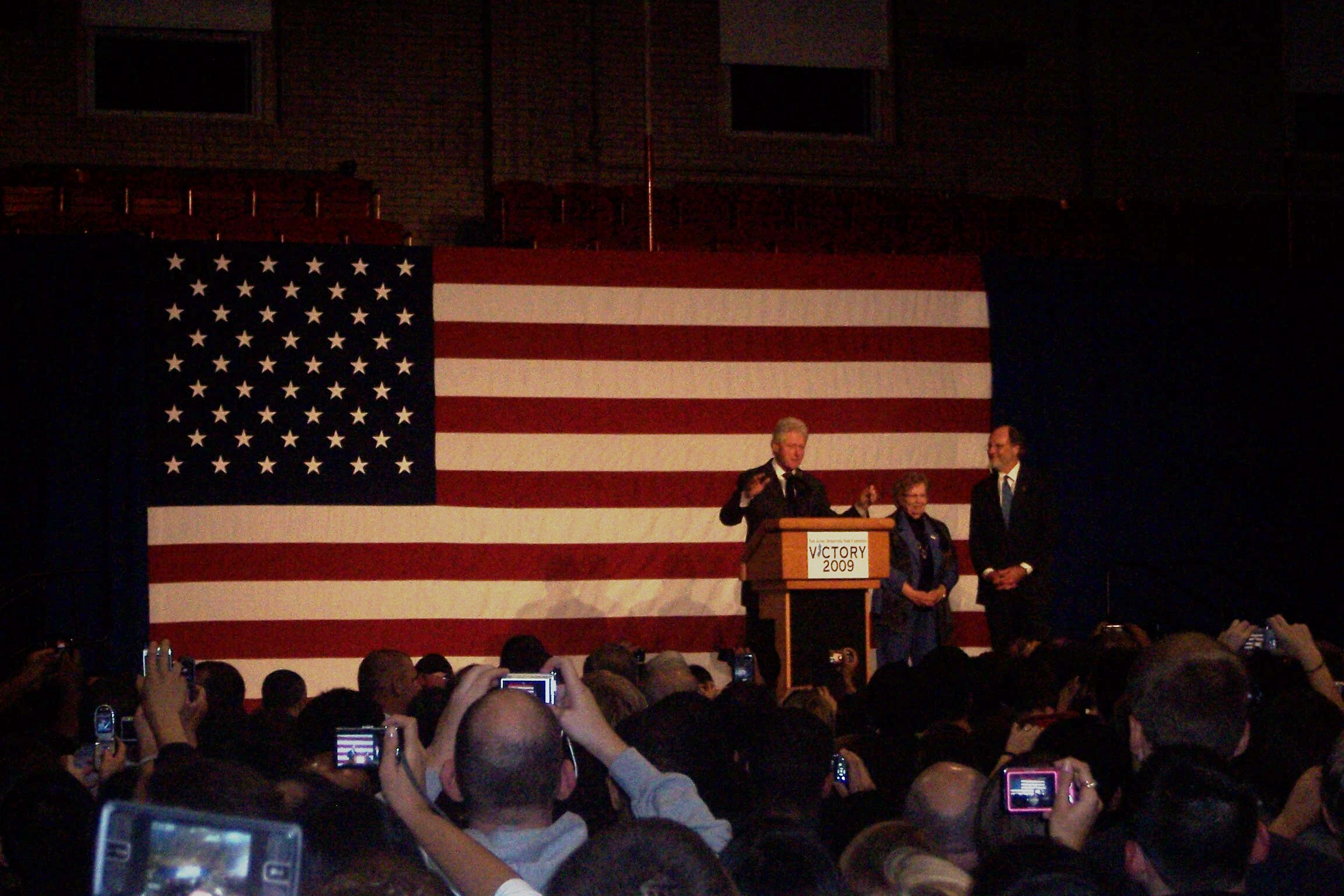 Bill Clinton, Loretta Weinberg, and Jon Corzine at a Rutgers University campaign rally for the Corzine/Weinberg gubernatorial ticket